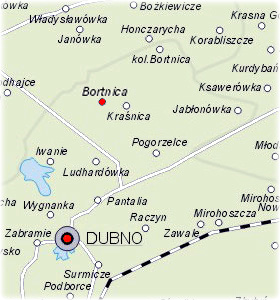 Location of Bortnica, a village in Wołyń Voivodeship (1921–1939), near the town of Dubno in Dubno County, Poland, before the Soviet invasion of 1939.